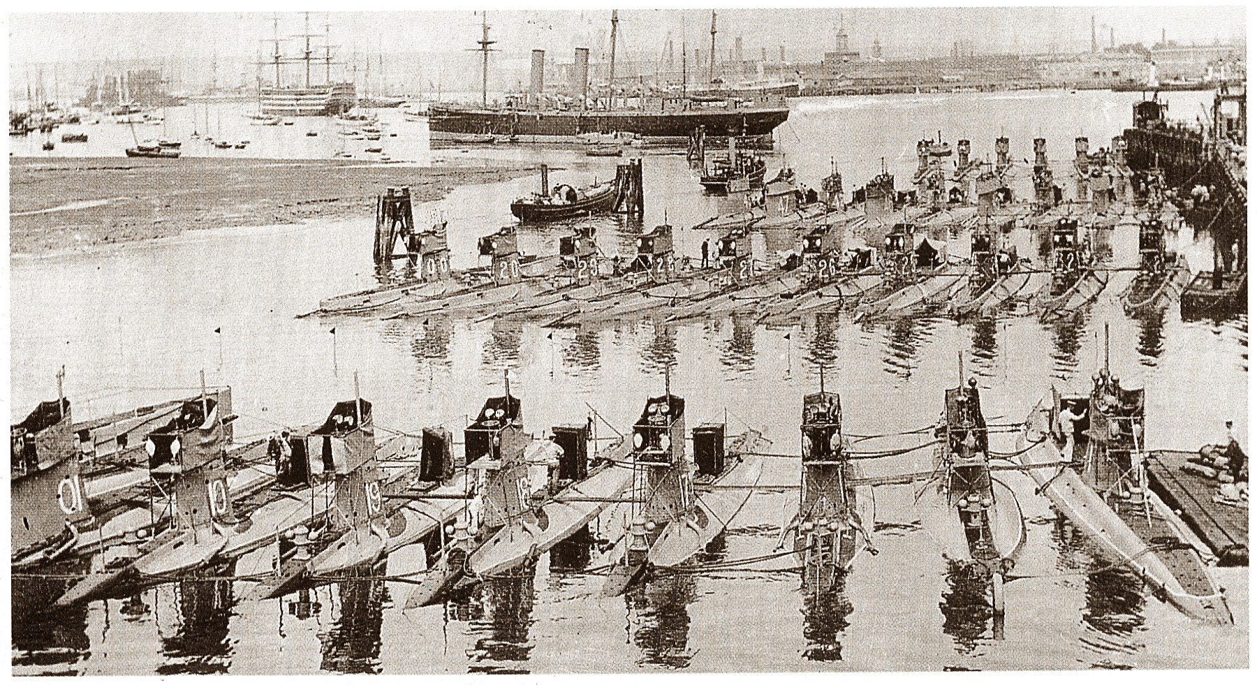 British Submarines in Portsmouth.